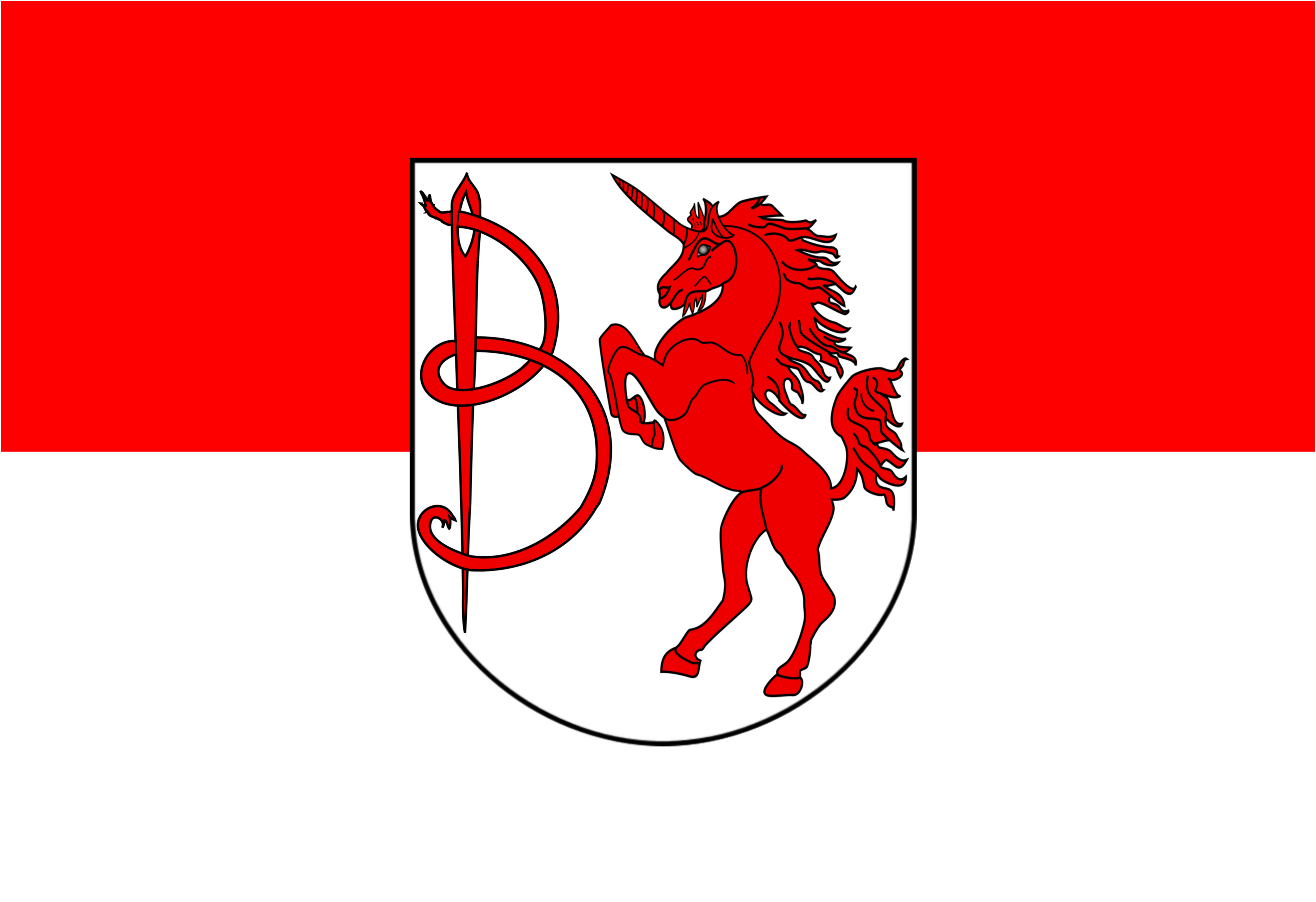 Flag of Breese Breese*countryGermanyused bycurrent since14 November 2012created byGestaltung: Sven Schwab; Entwurf: Die Mitglieder des Prignitz Herold e. V.formatshaperectangularcoloursred, whiteother characteristicsflag has 2 horizontal stripes